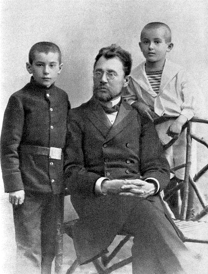 Pyotr Vasilievich Kataev with his sons, Valentin and Yevgeni. Odessa, 1910.